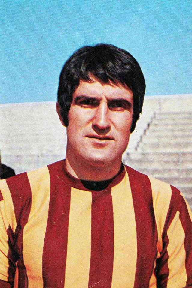 Italian footballer Sergio Santarini with A.S. Roma in the summer of 1971. Santarini wears a unusual giallorossa striped jersey: it was initially intended to be A.S. Roma's new home jersey for the 1971–72 season, from an idea of the coach Helenio Herrera; but was soon rejected by the fans (also for superstitious reasons), so its use was stopped at the pre-season. The photo was probably taken during the team's summer training camp in Spoleto, Italy.